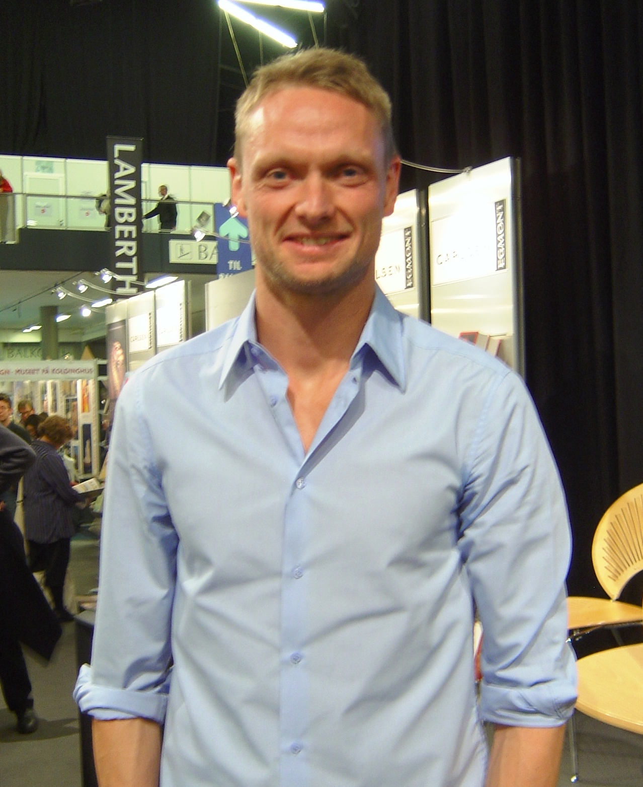 Kenneth Carlsen - a former Danish professional tennis player promoting his autobiography called Alene på banen on 16 November 2008 at the annual Danish book fair, Bogforum (November 14-16, 2008), in Forum Copenhagen.